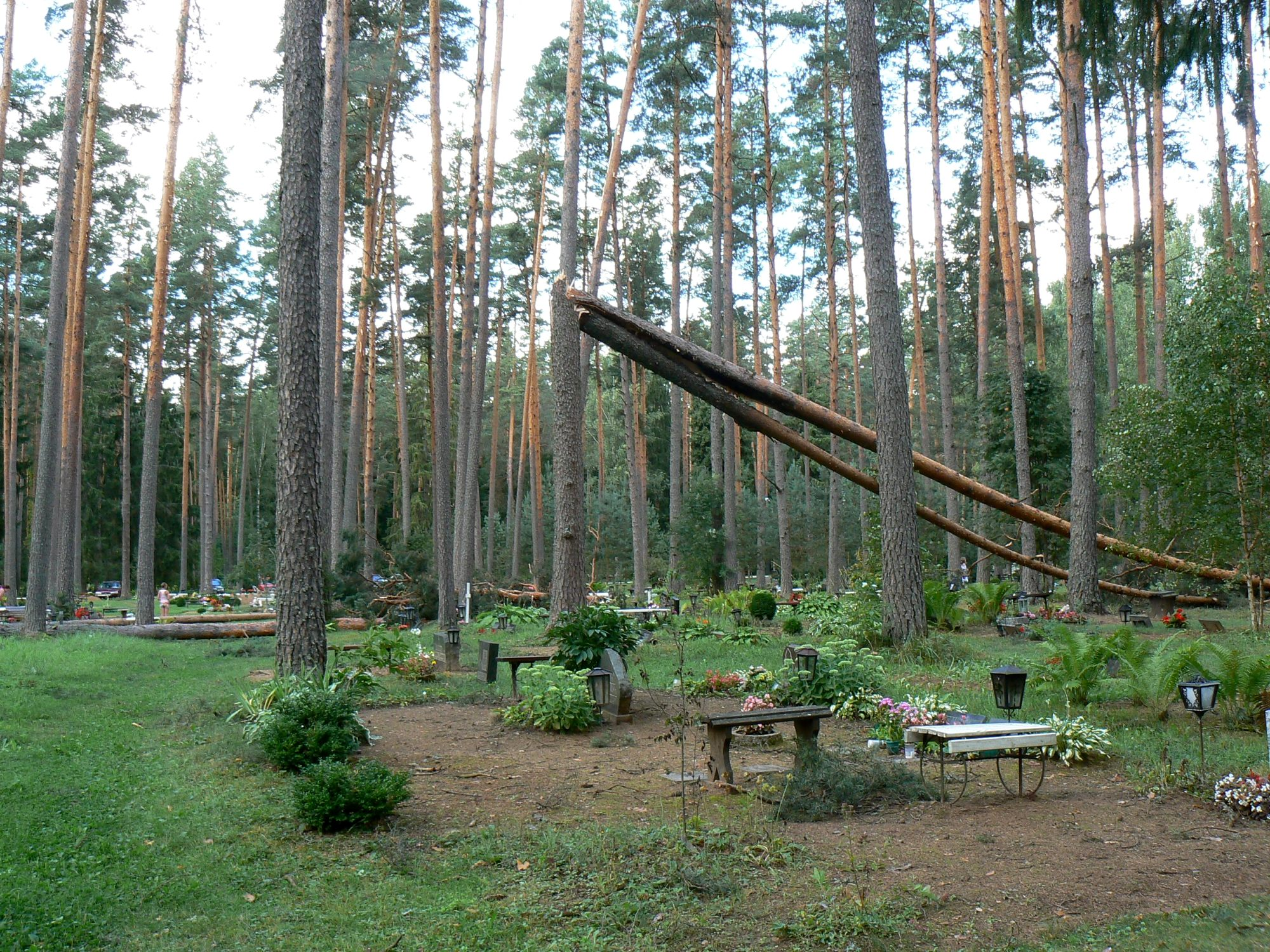 Cemetry of Elva in Estonia after thunderstorm in 8 august 2010